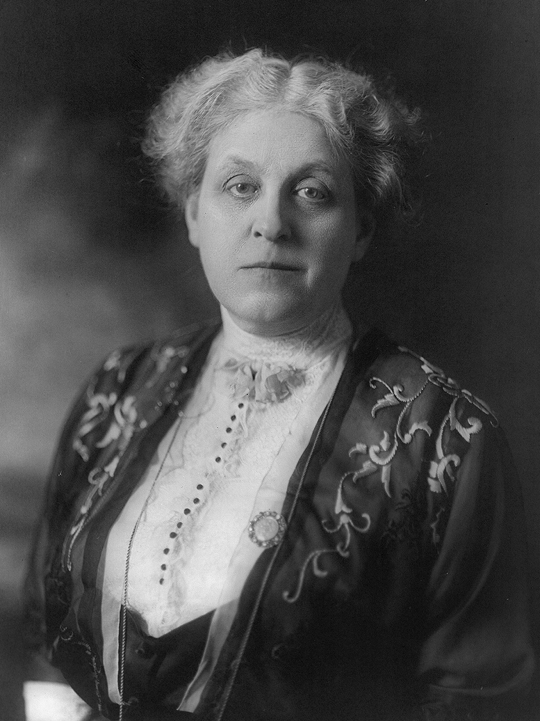 Photograph of Carrie Chapman Catt from 1914.